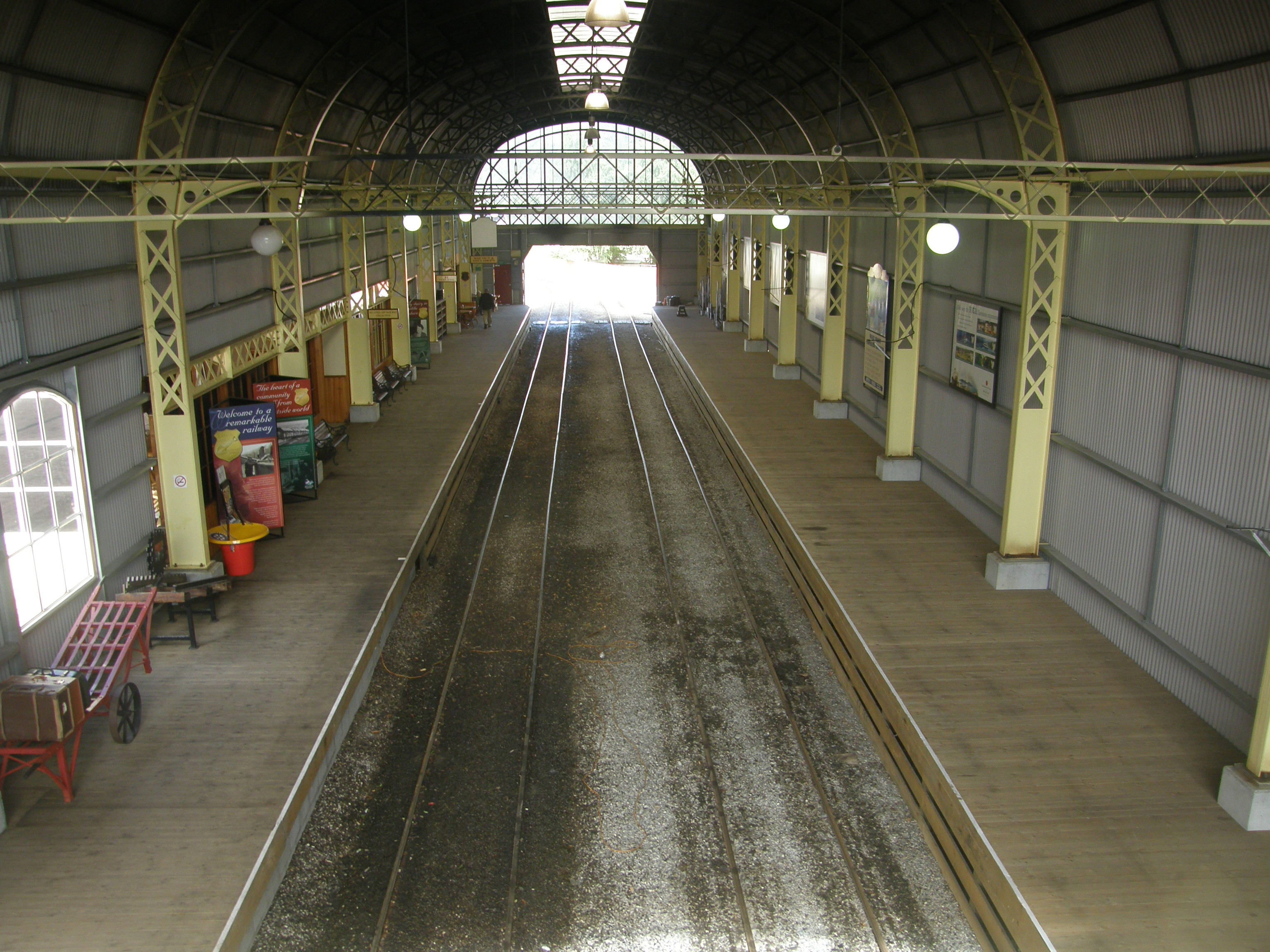 Interior of the new Queenstown railway Station